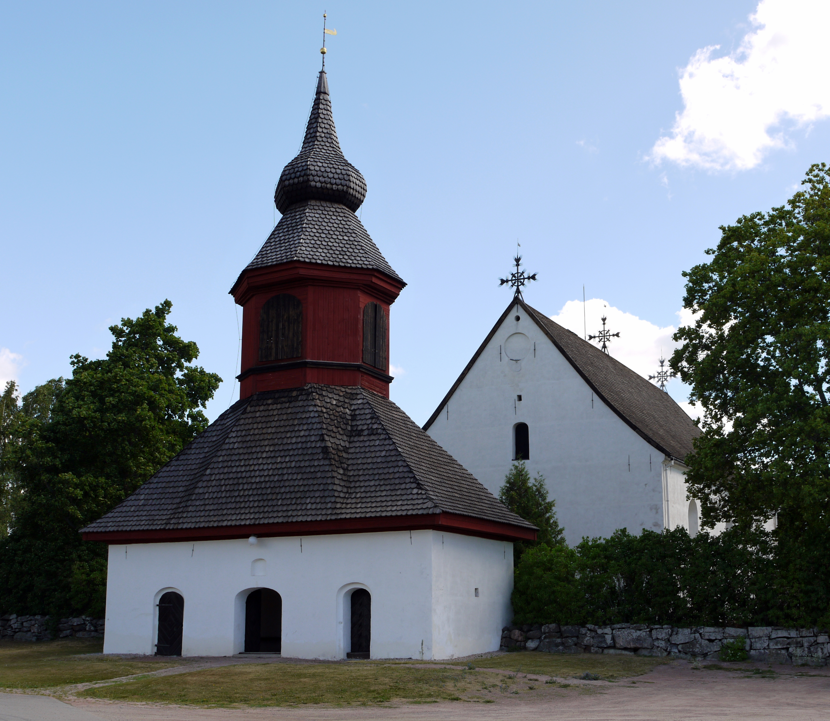 Askainen Church and belfry in Askainen, Masku, Finland.